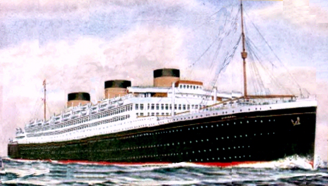 Postcard of Oceanic (III)